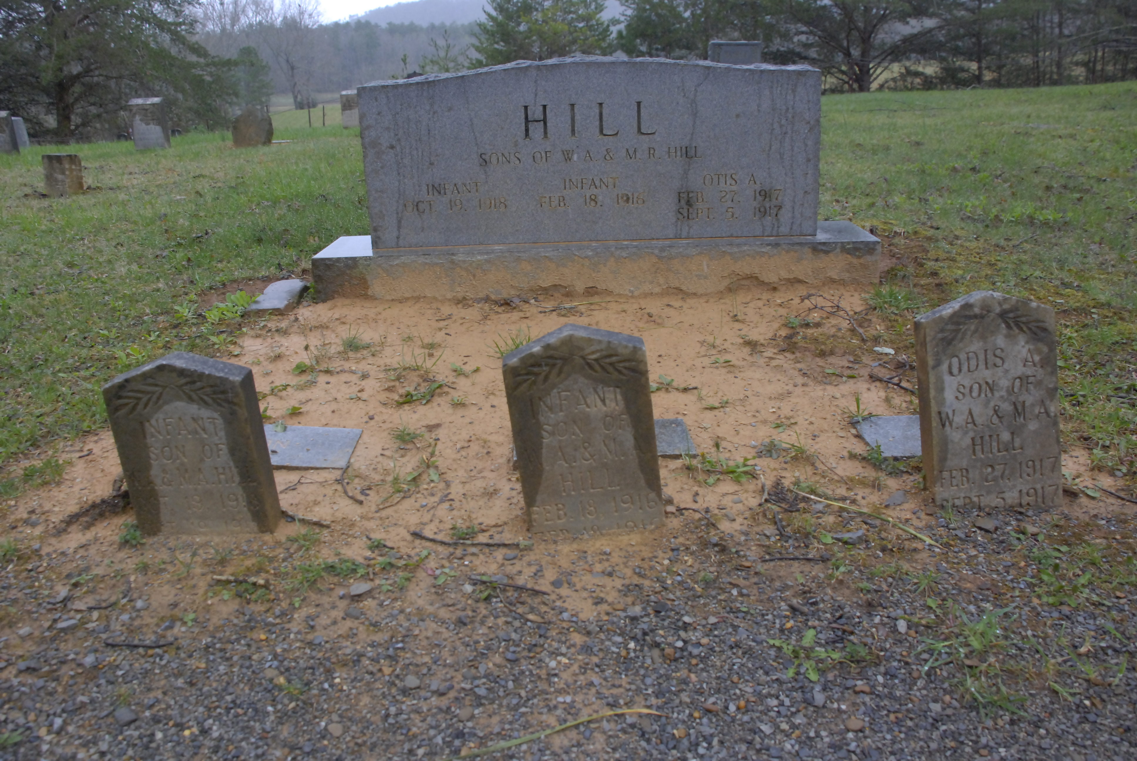 Cades Cove at Smoky Mountains National Park: Methodist Church cemetery with 3 graves of infants born to the same parents in 1916, 1917 and 1918.